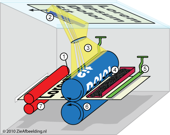 How does a photocopier/xerox work? I've created a picture about it: 1. Eine Trommel lädt sich statisch auf 2. A lamp shines on the original document. Light parts of the original document reflect the light, dark parts don't; 3. The static charge on the drum is canceled by the reflected light; 4. The static charged parts load attract toner which sticks to the drum; 5. The paper is given a static charge; 6. The paper then goes past the drum. The toner sticks to the paper now; 7. Hot rollers melt the toner onto the paper the copy is created!